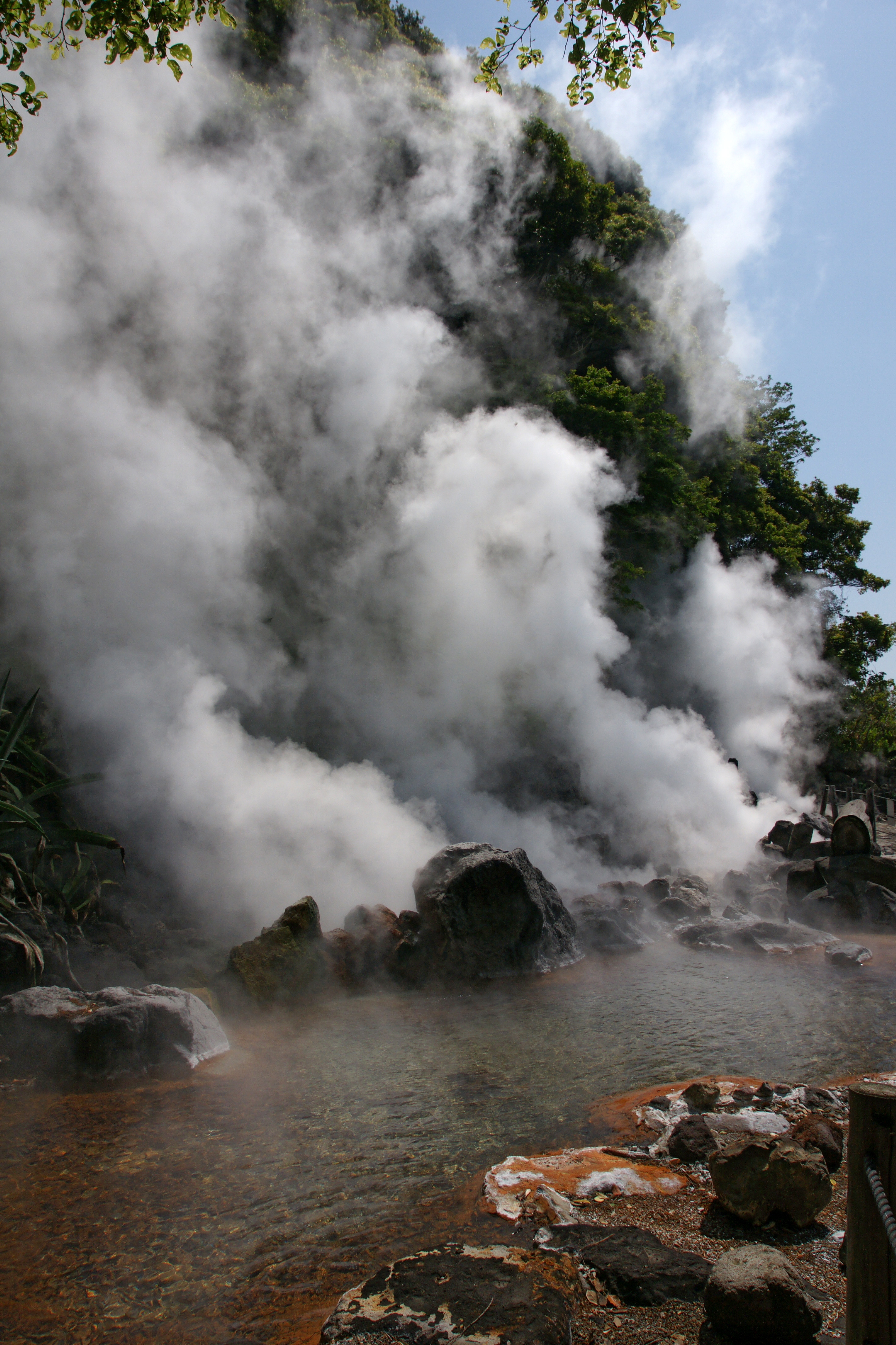 Yama Jigoku of Beppu Jigokumeguri, Beppu, Oita prefecture, Japan